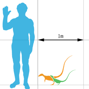 Size of the dinosaur Sinosauropteryx prima compared with a human. Scale bar = 1 meter. Scaled based on holotype specimen GMV 2123 (green) and larger specimen NIGP 127587 (orange), using the scale bar provided in: Chen, P., Dong, Z. and Zhen, S. (1998). "An exceptionally well-preserved theropod dinosaur from the Yixian Formation of China." Nature, 391(8): 147-152.